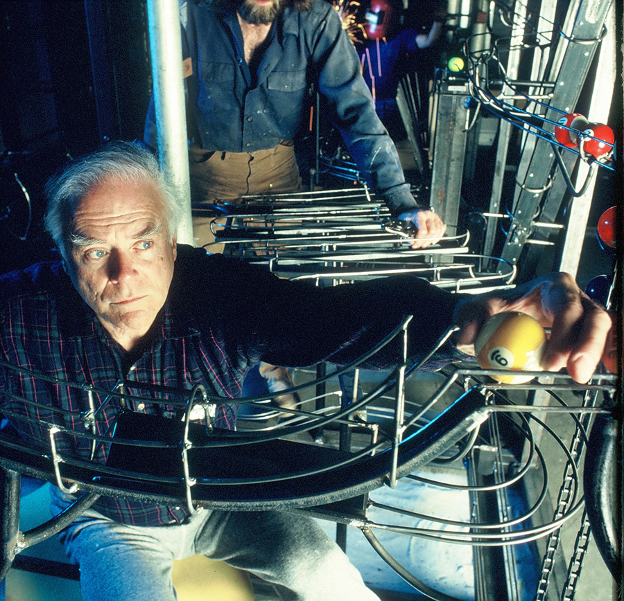 This is an earlier photo of George Rhoads working on one of his rolling ball sculptures.